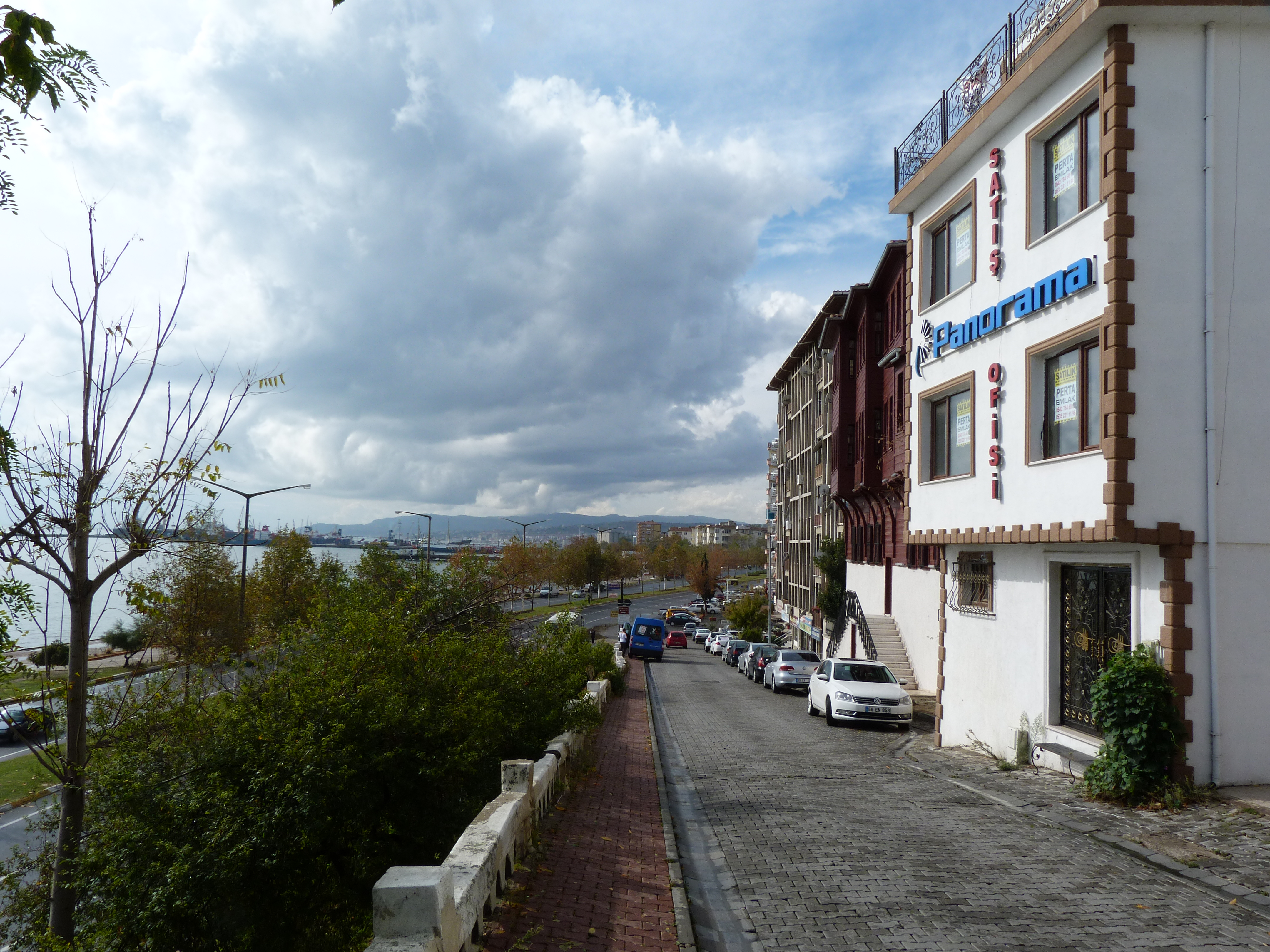 Live on the 25th of october, 2014. Rákóczi Museum, Tekirdağ, Turkey. ©© Derzsi Elekes Andor, Budapest, 2014, Published in the Metapolisz DVD line. You are authorised to use this vid under Creative Commons – even for commercial, for profit purposes. The vid must be attributed to Derzsi Elekes Andor. All of the photos and vids in the Metapolisz DVD line are under Creative Commons and can be used even for commercial – for profit – purposes. Recommended Citation Derzsi Elekes Andor: Metapolisz DVD line